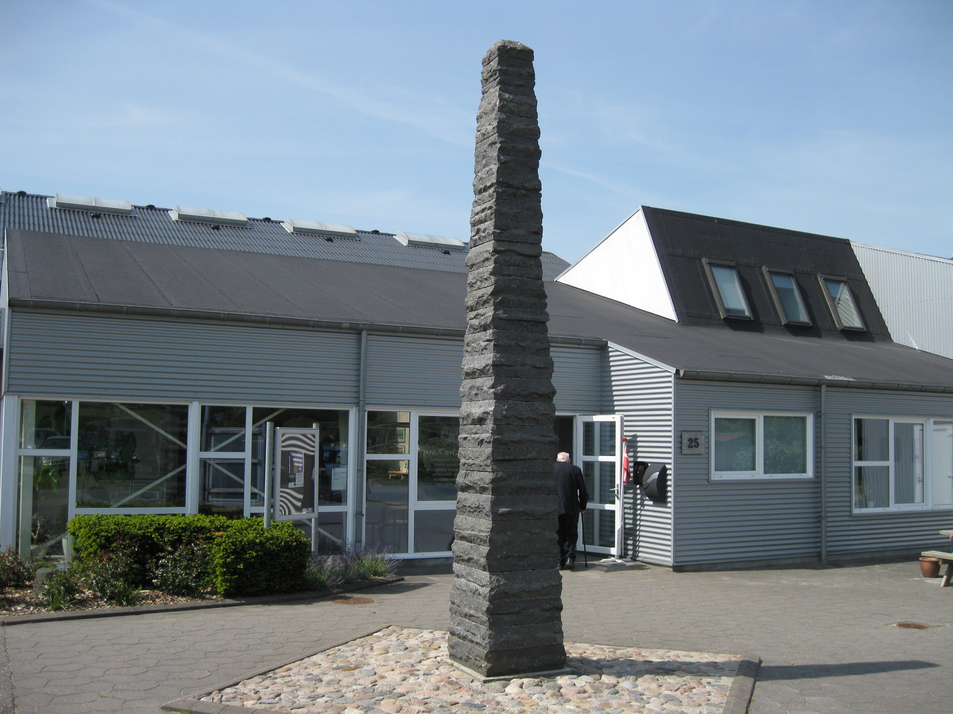 Janus Building, Tistrup, Denmark